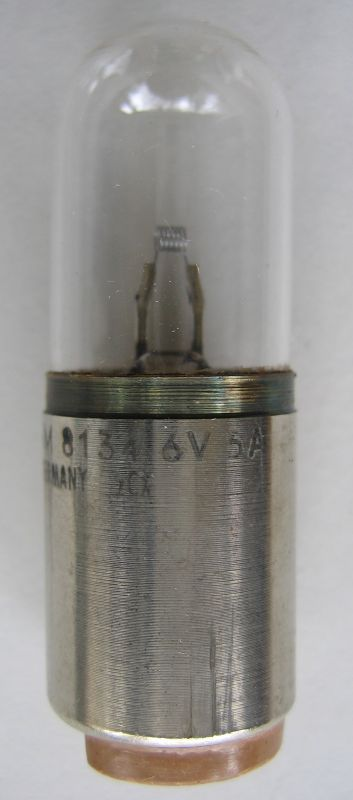 Exciter lamp of a movie projector